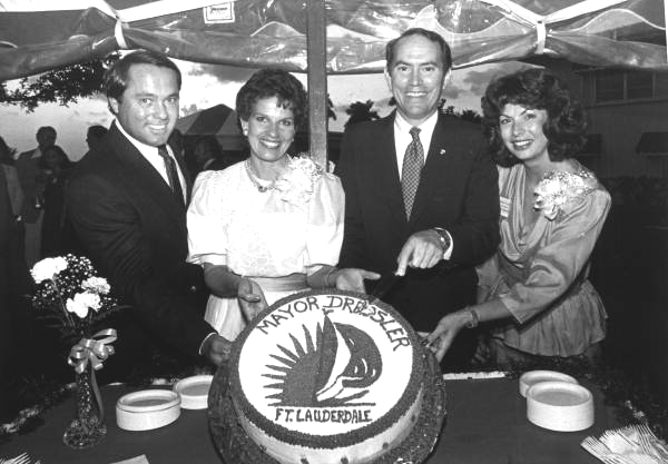 Group portrait showing Mayor Dressler cutting his birthday cake during party - Fort Lauderdale, Florida L-R: developer Terry Stiles, Mrs. Dressler, Mayor Robert Dressler and Sharon Stiles.